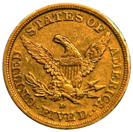 Reverse of an 1843-D United States half eagle coin. (This is the "small D" variety.)